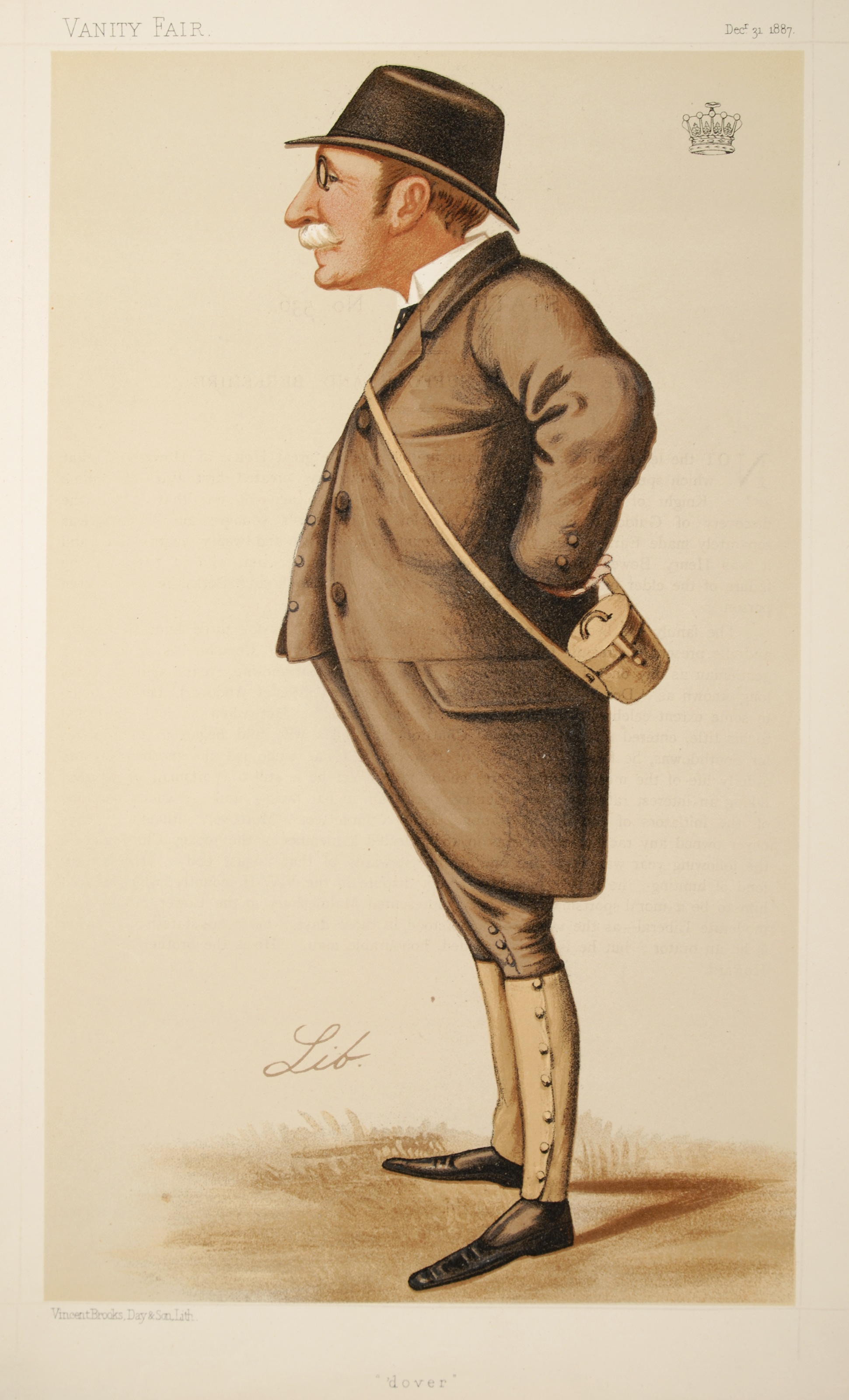 Statesmen No.535: Caricature of The Earl of Suffolk and Berkshire. Caption reads: "Dover"